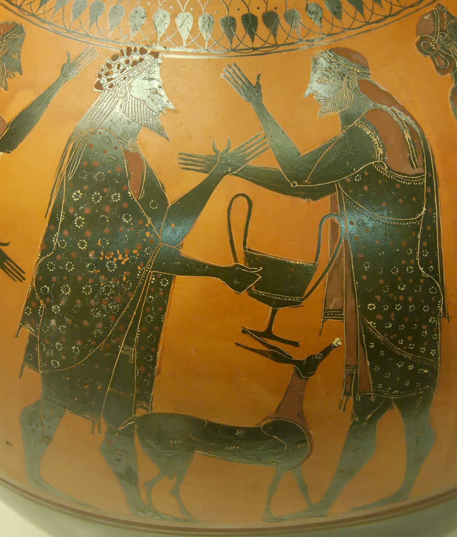 Dionysos and Ikarios. Attic black-figured amphora, ca. 540–520 BC. From Vulci.